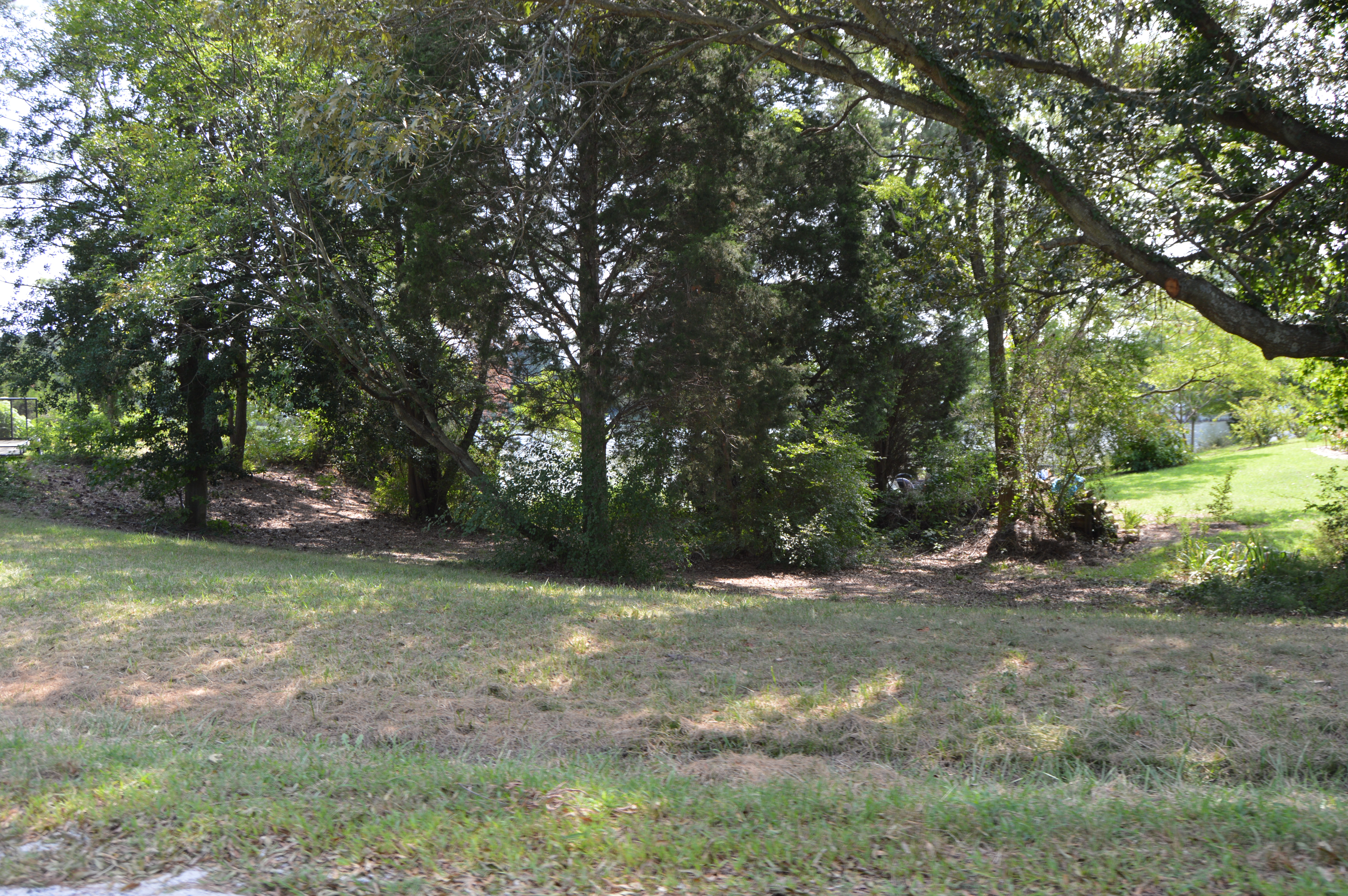 A wooded plot by the end of Glebe Road in the Glebe Harbor subdivision of northeastern Westmoreland County, Virginia, United States. As early as 1677, this was the site of a pottery-kiln operation, and as a significant archaeological site, it is listed on the National Register of Historic Places.